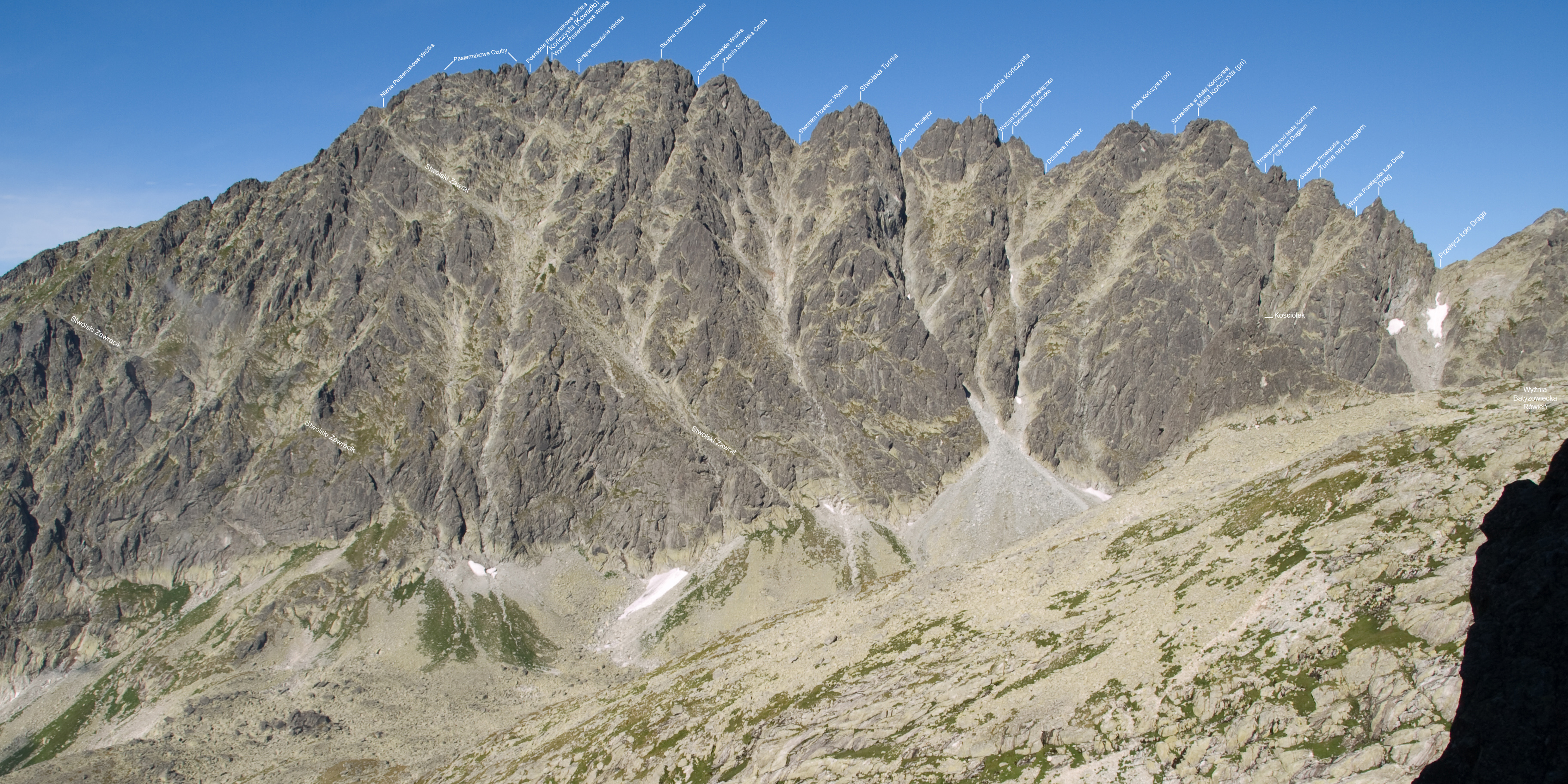 Hrebeň Končistej from the east (from Batizovská dolina)